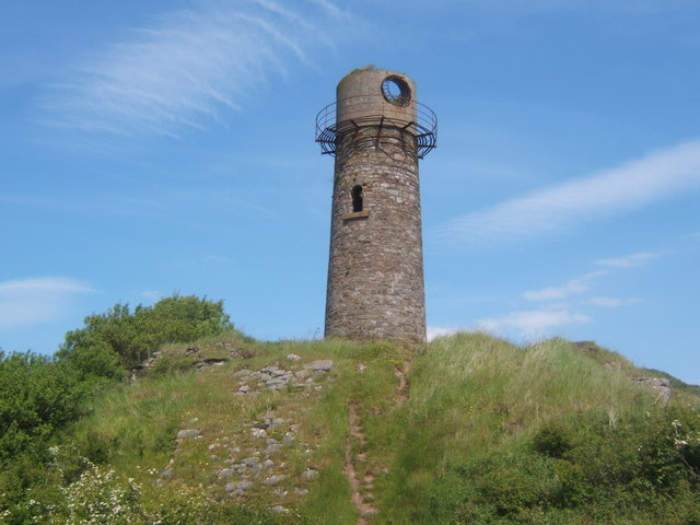 Old lighthouse, Hodbarrow The old lighthouse from the days before the building of the outer sea wall.